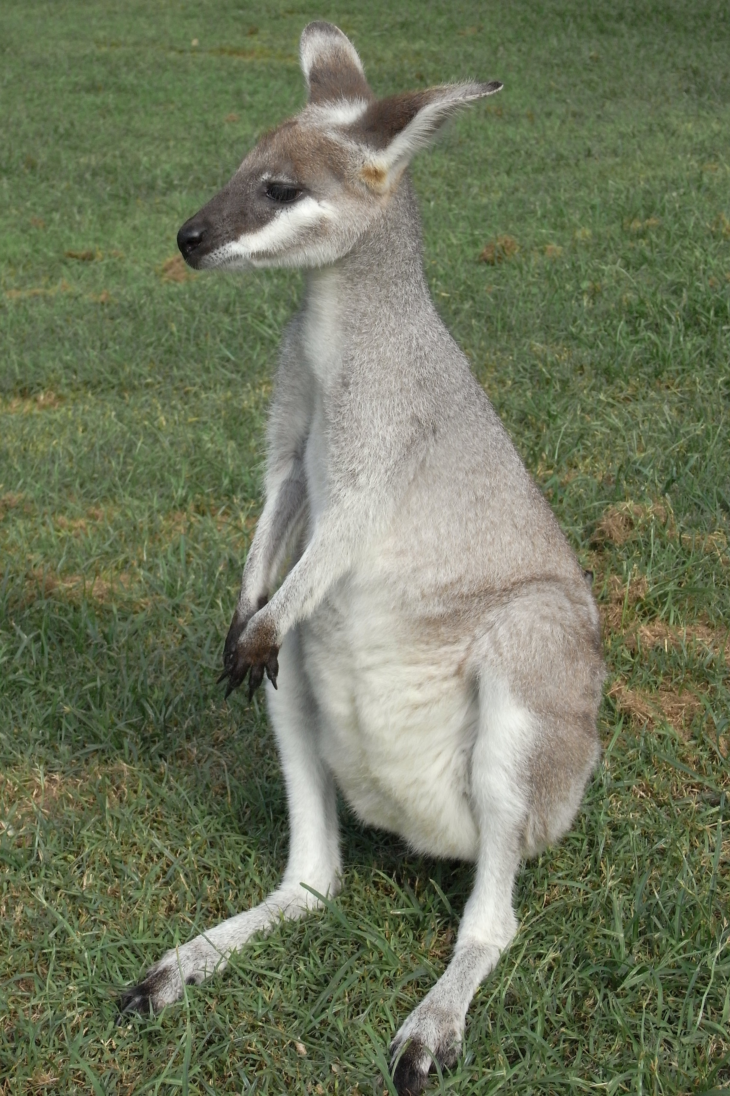 Young Whiptail Wallaby/Pretty-Faced Wallaby (Macropus parryi) at Lone Pine Koala Sanctuary, Brisbane, Australia.